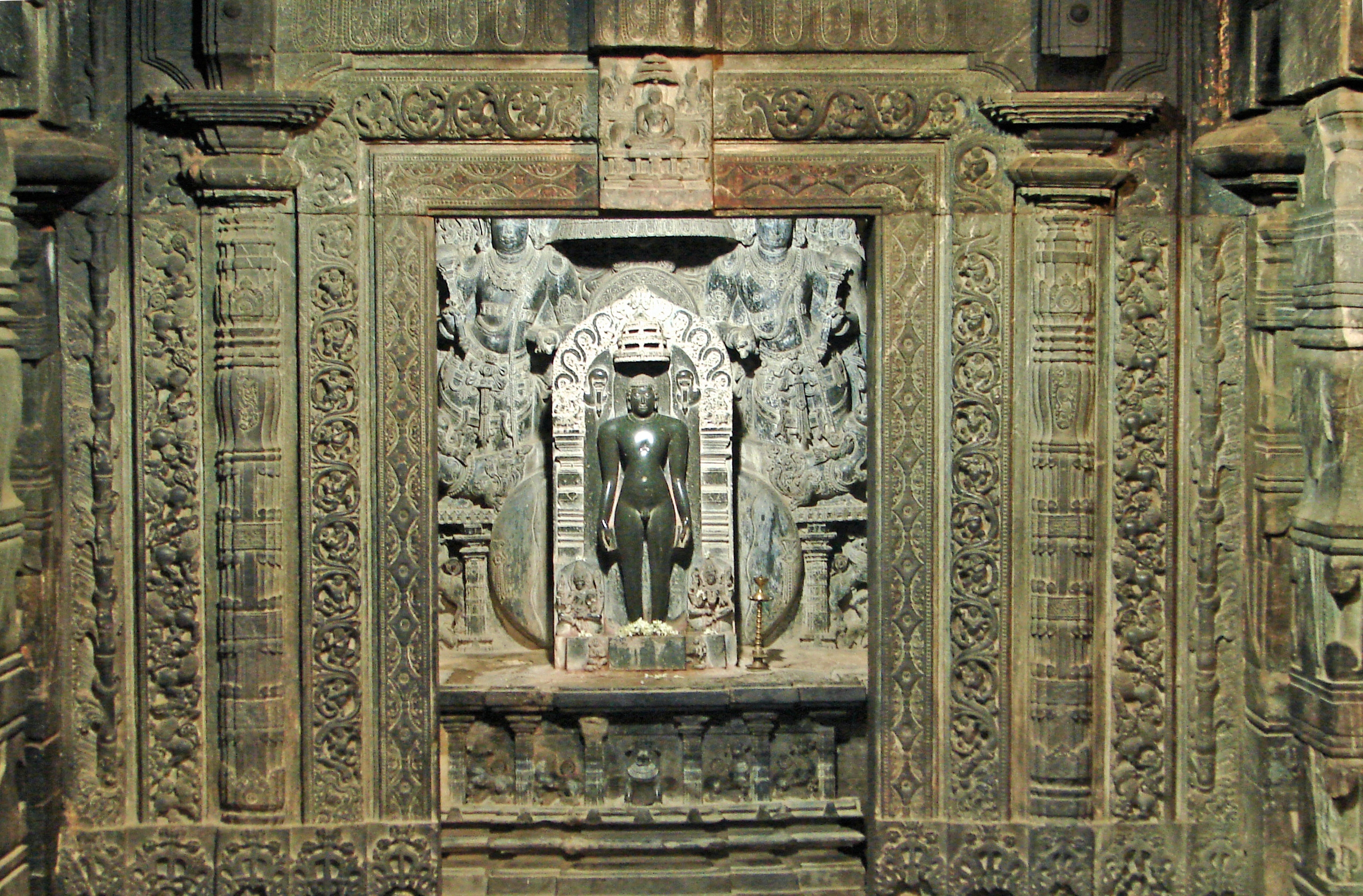 The Jain temple in Lakkundi, Gadag district, Karnataka state, India